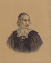 Jacobus Golius, Dutch Orientalist.